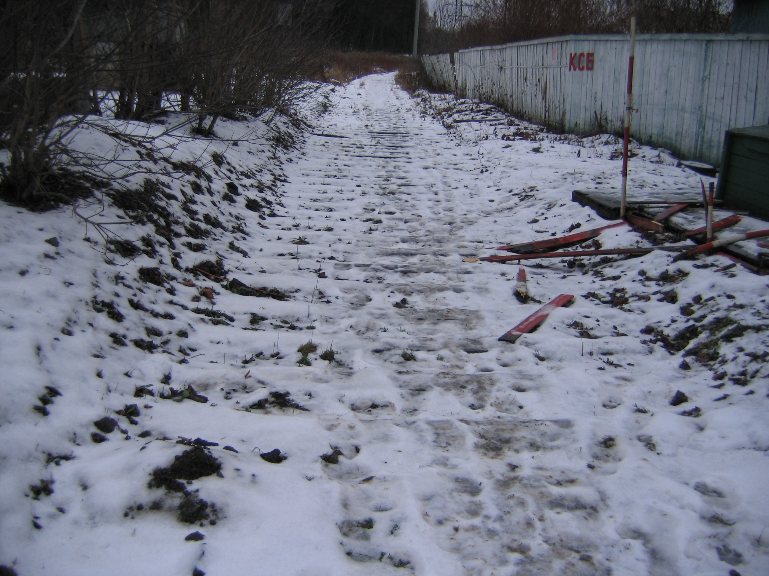 Abandoned railway to the "Krasny Bogatyr" plant, Moscow, Russia